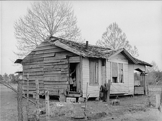 Original caption: "Home of Negro sharecropper near Marshall, Texas".